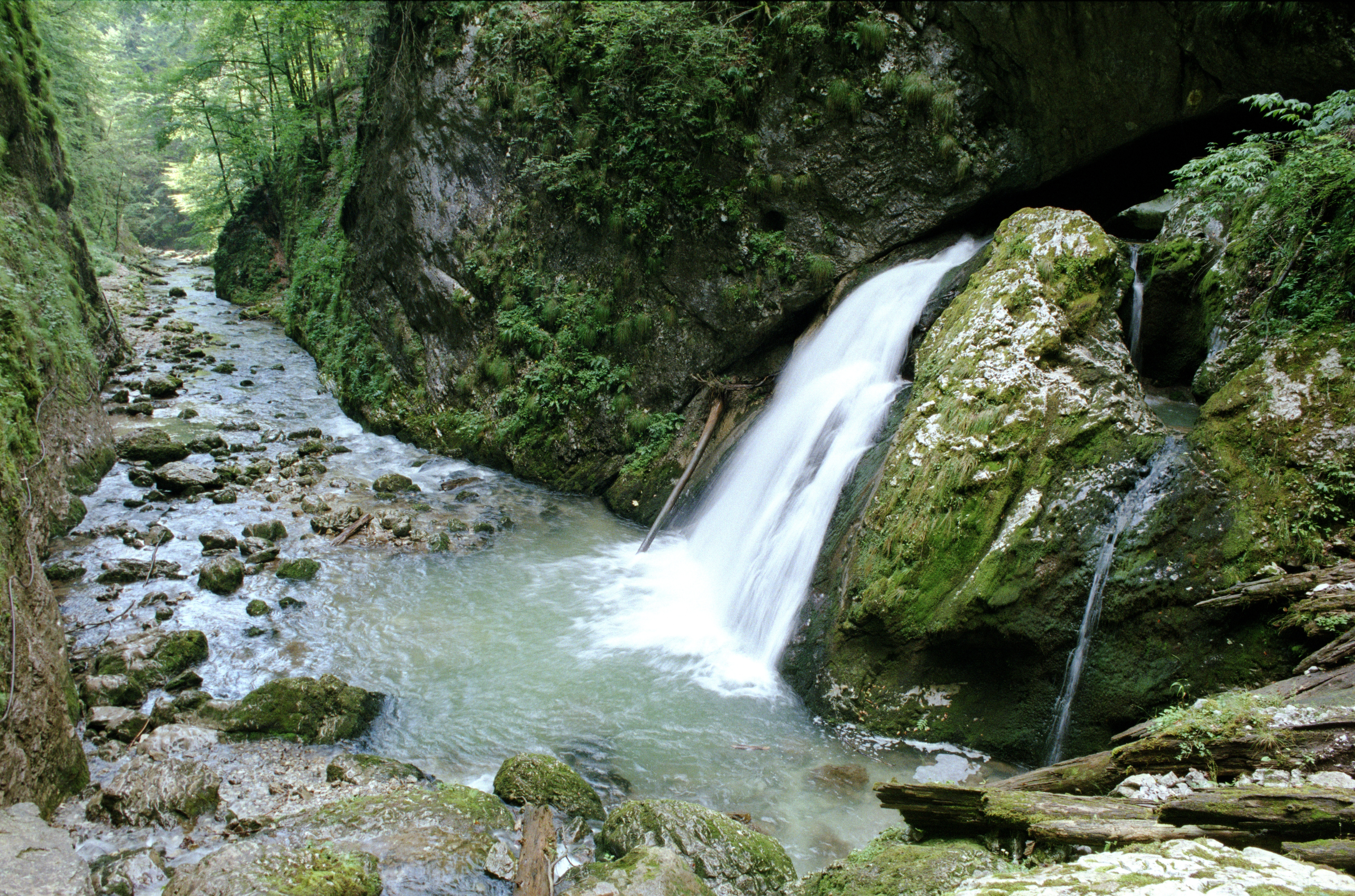 Galbena river gorge, Apuseni Natural Park, Bihor mnts, Romania